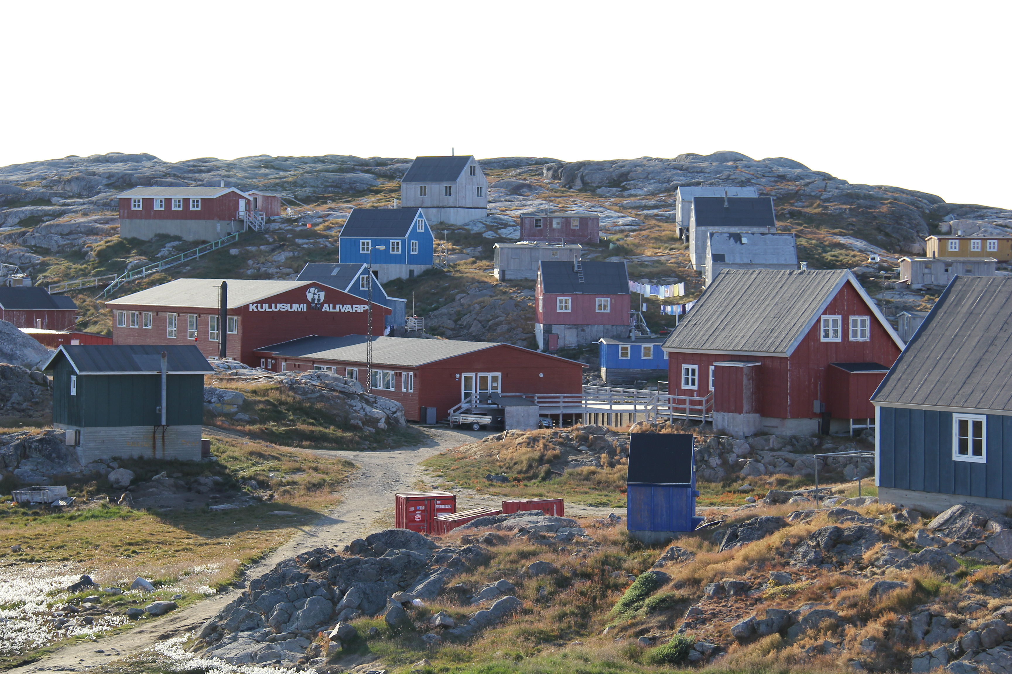 Kulusuk, centre of the village with the school - Kulusumi Alivarpi - to the left.